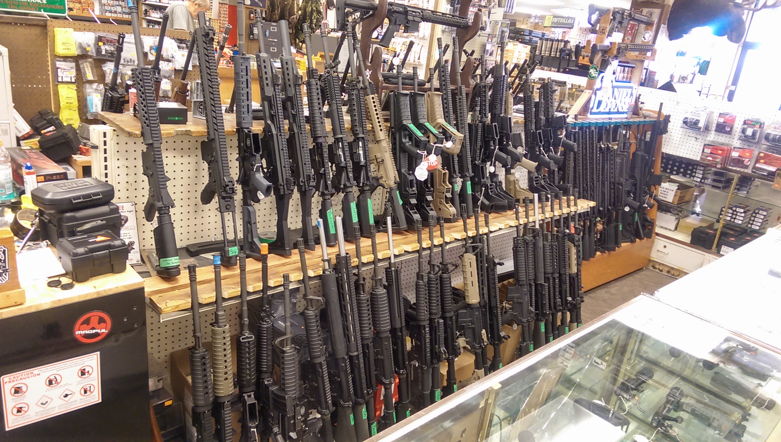 A rack of various assault rifles, mostly AR-15's, in Gallenson's Gun Shop, located in Salt Lake City, Utah, USA.